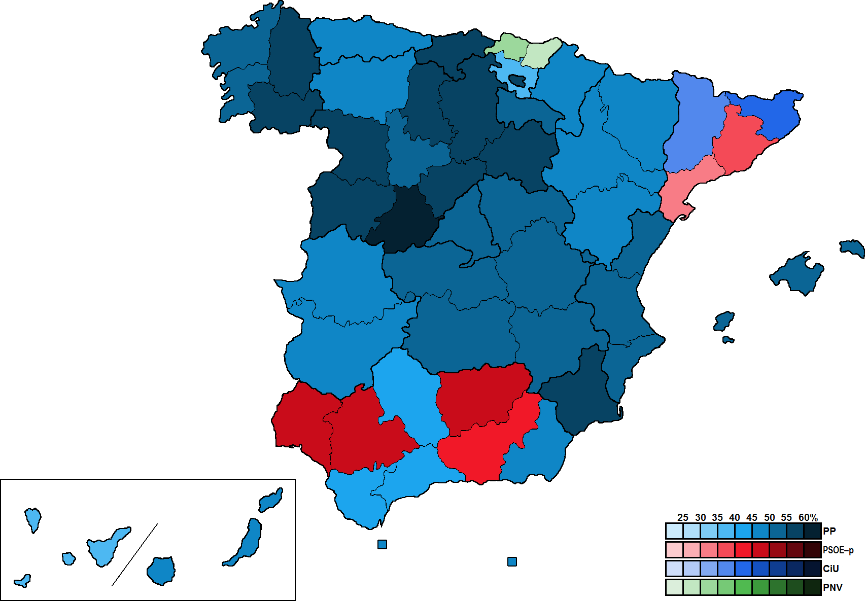 Provincial results for the 2000 Spanish general election.